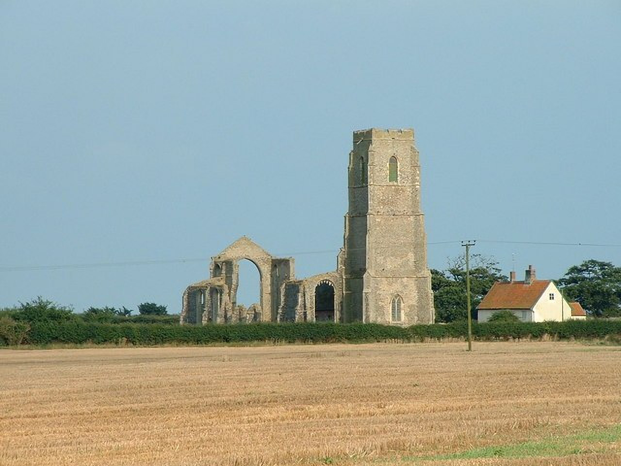 St Andrews Covehithe The church of St Andrew Covehithe Suffolk for more info